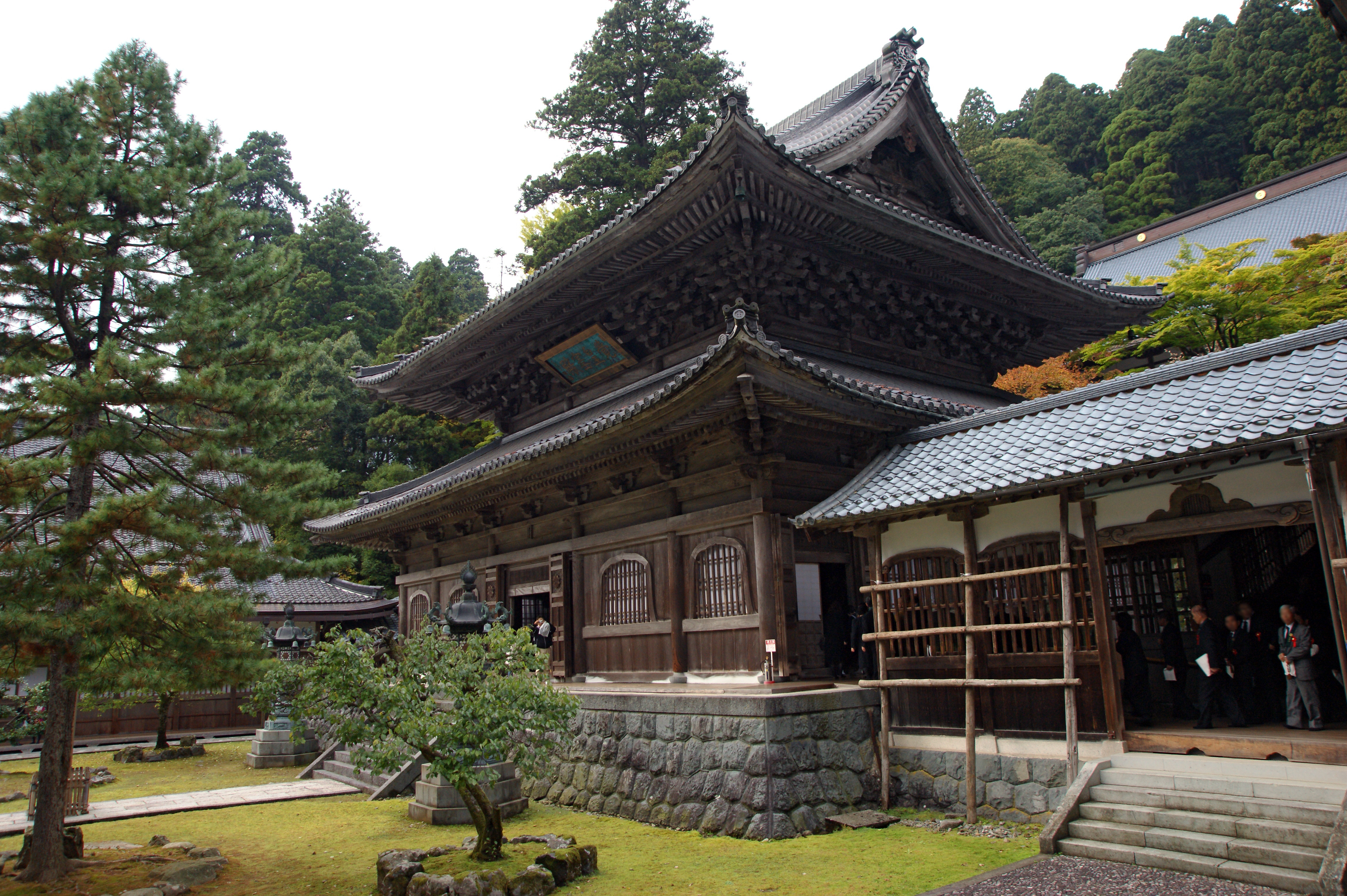 Eiheiji, Eiheiji, Fukui prefecture, Japan